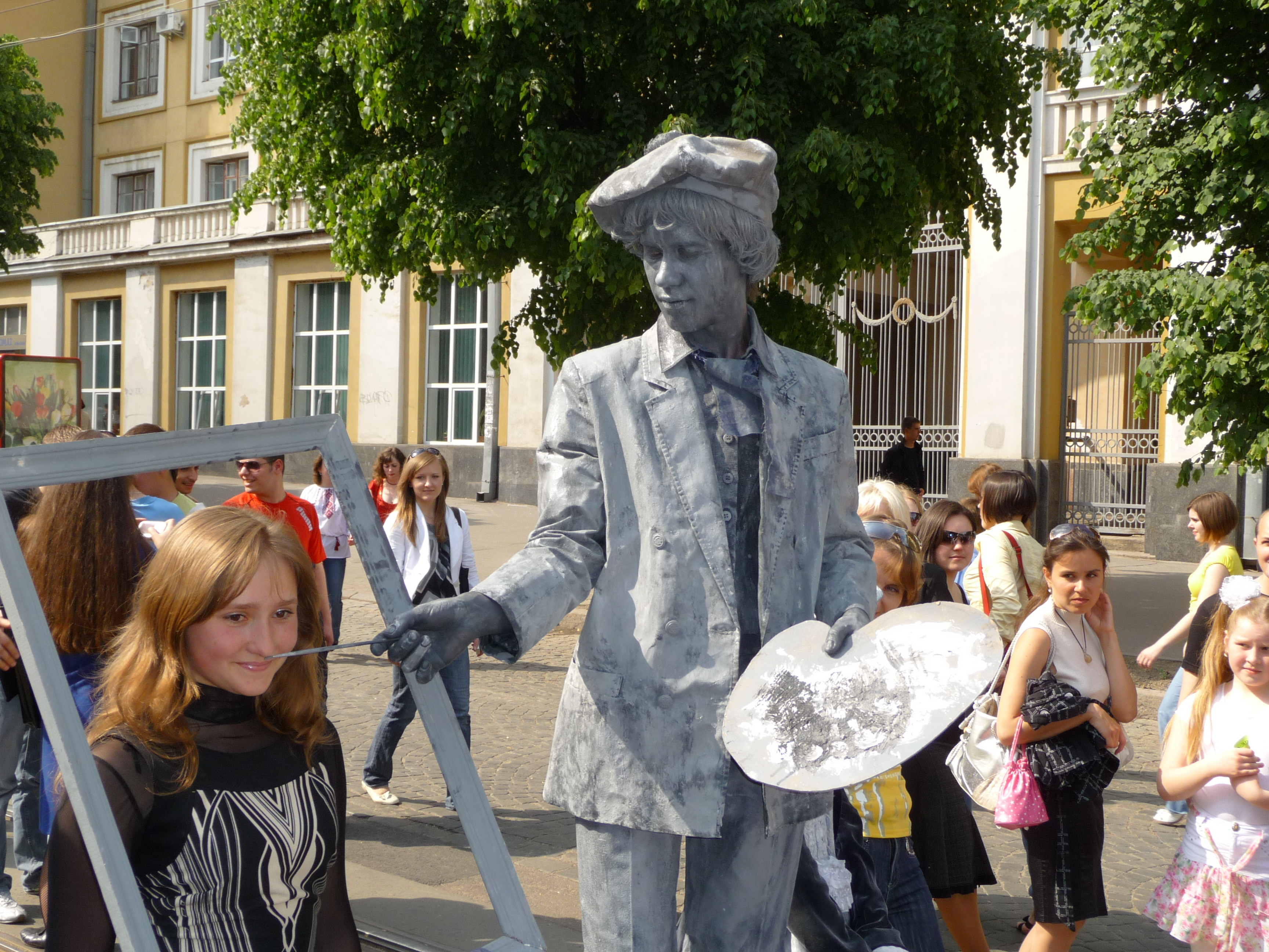 Living statues, performance art. Europe Day celebration in Ukraine, Vinnitsa.